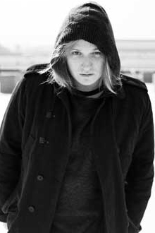 Mike Selsky, 2011, Attribution: Attribution details